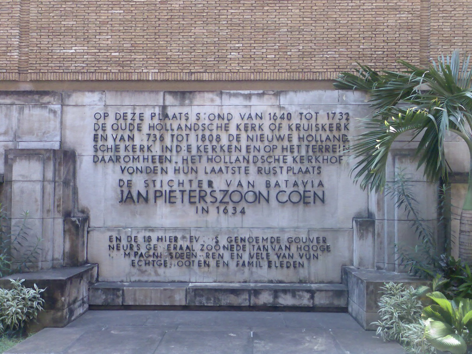 The interior of Wayang Museum at Jakarta which shows the graveyard of Jan Pieterszoon Coen, the Governour-General of Dutch East Indies.